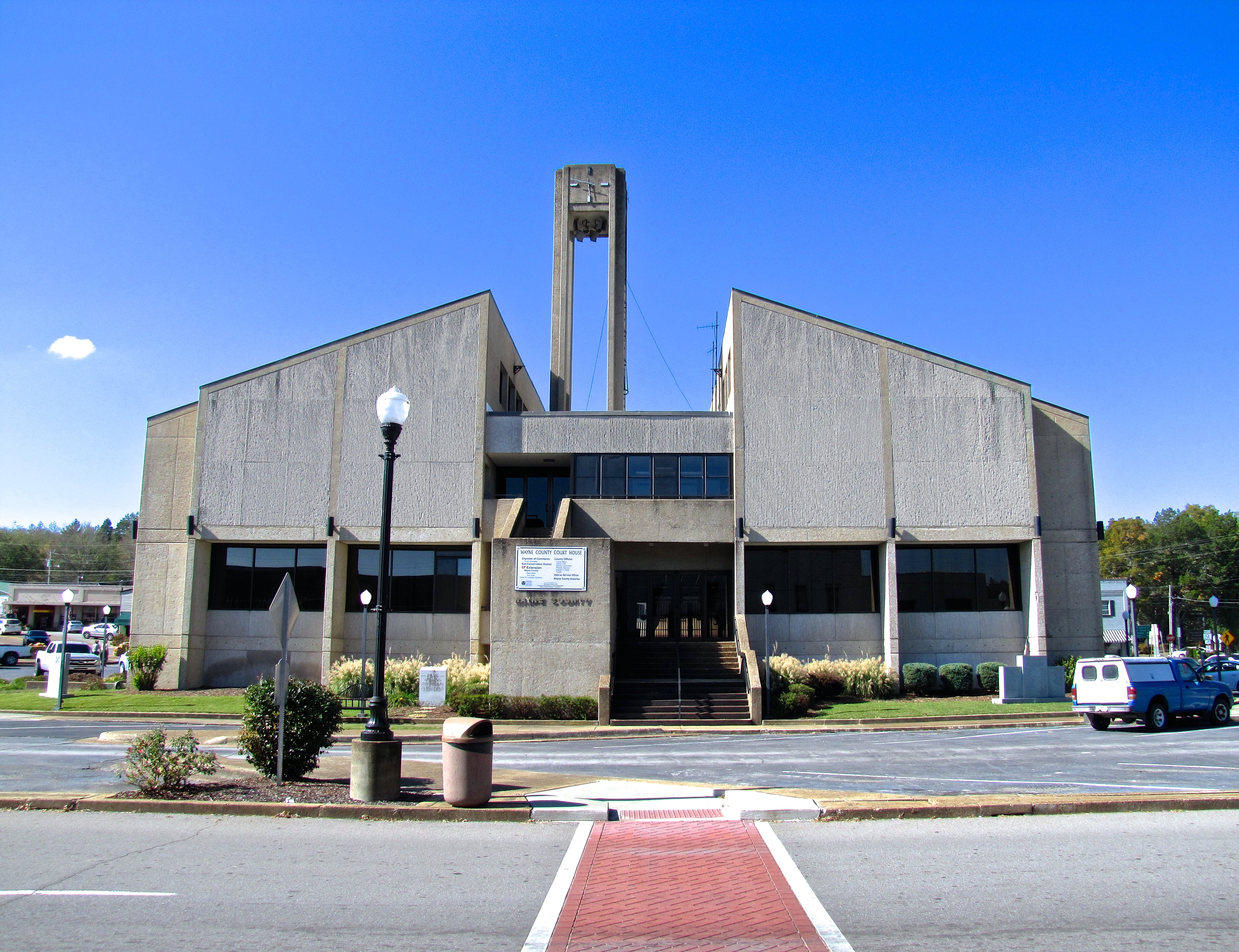 Wayne County Courthouse in Waynesboro, Tennessee, United States, viewed from the east.